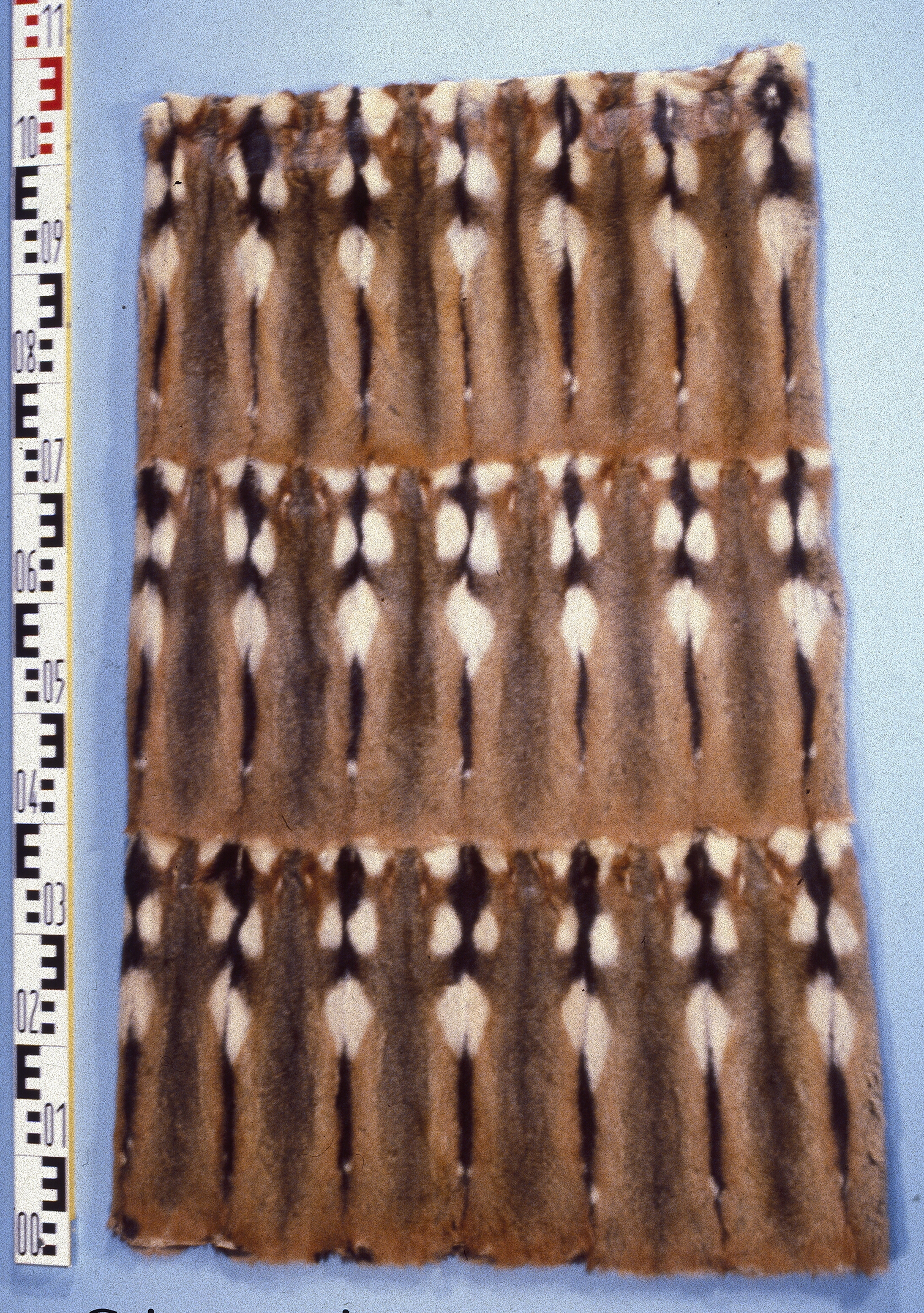 Common hamster (Cricetus cricetus), lining. Fur skin collection, Bundes-Pelzfachschule, Frankfurt/Main, Germany